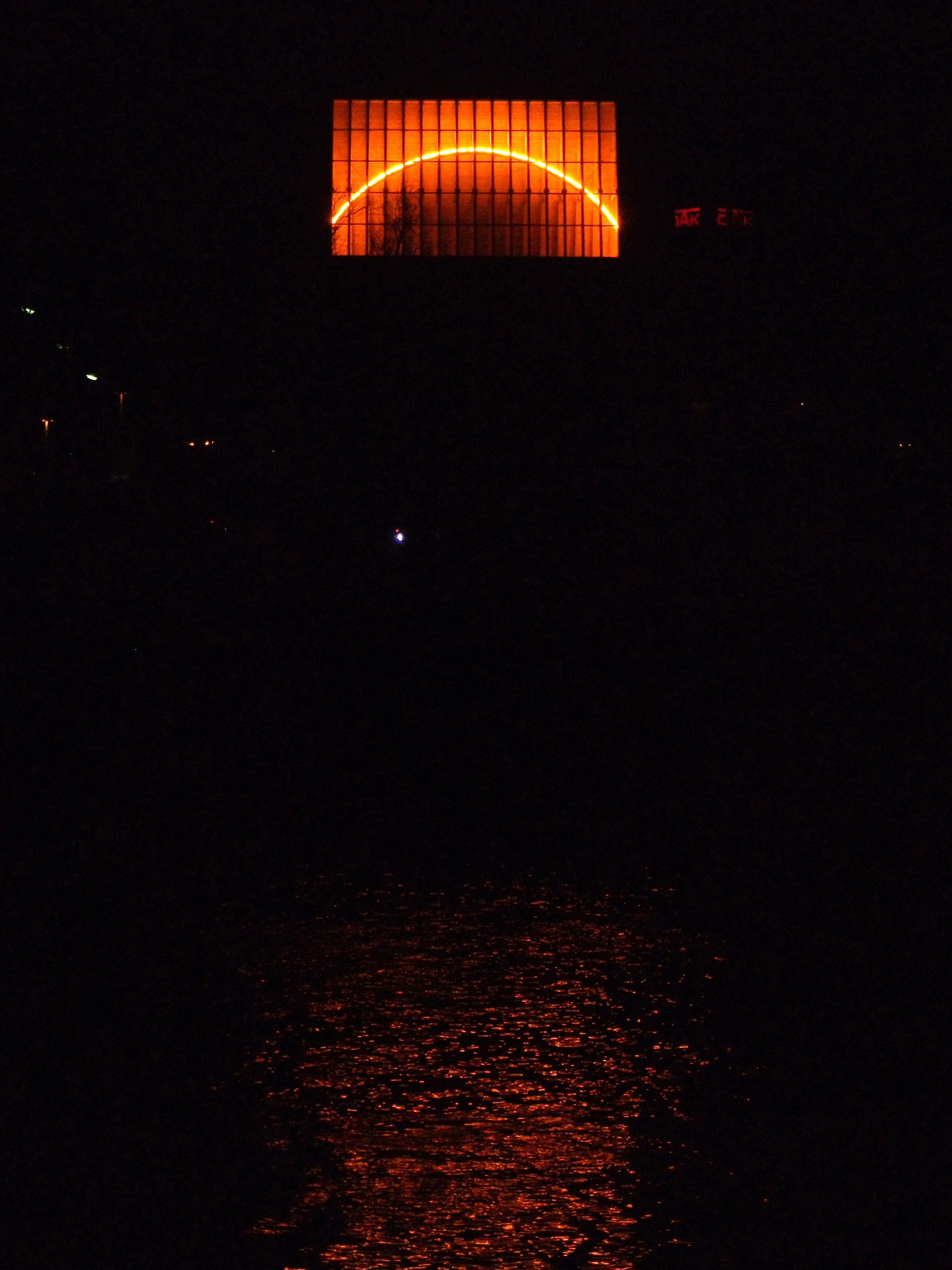 Olafur Eliasson's "Light Lab" at Portikus in Frankfurt am Main, 2010